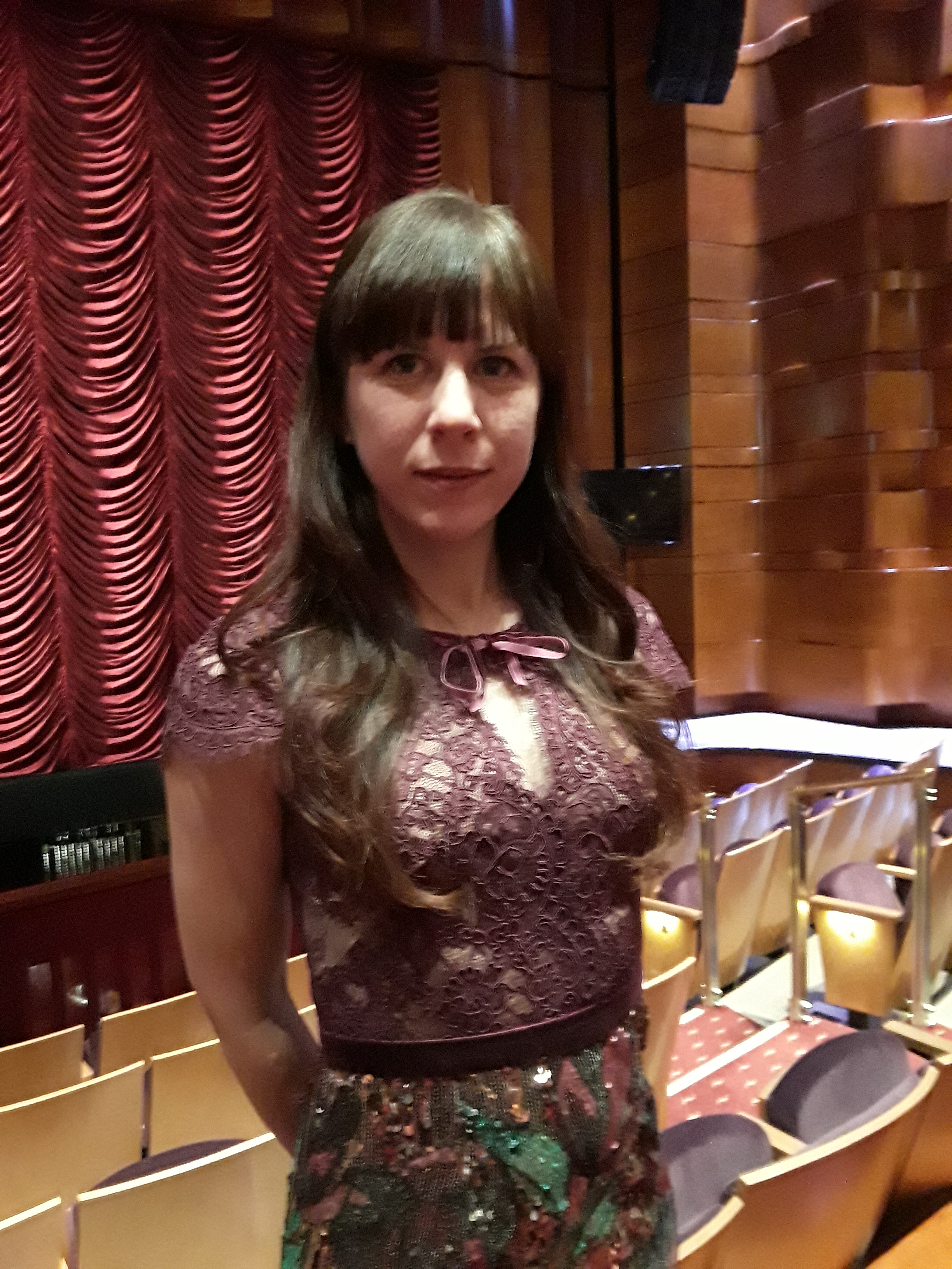 Portrait of Missy Mazzoli